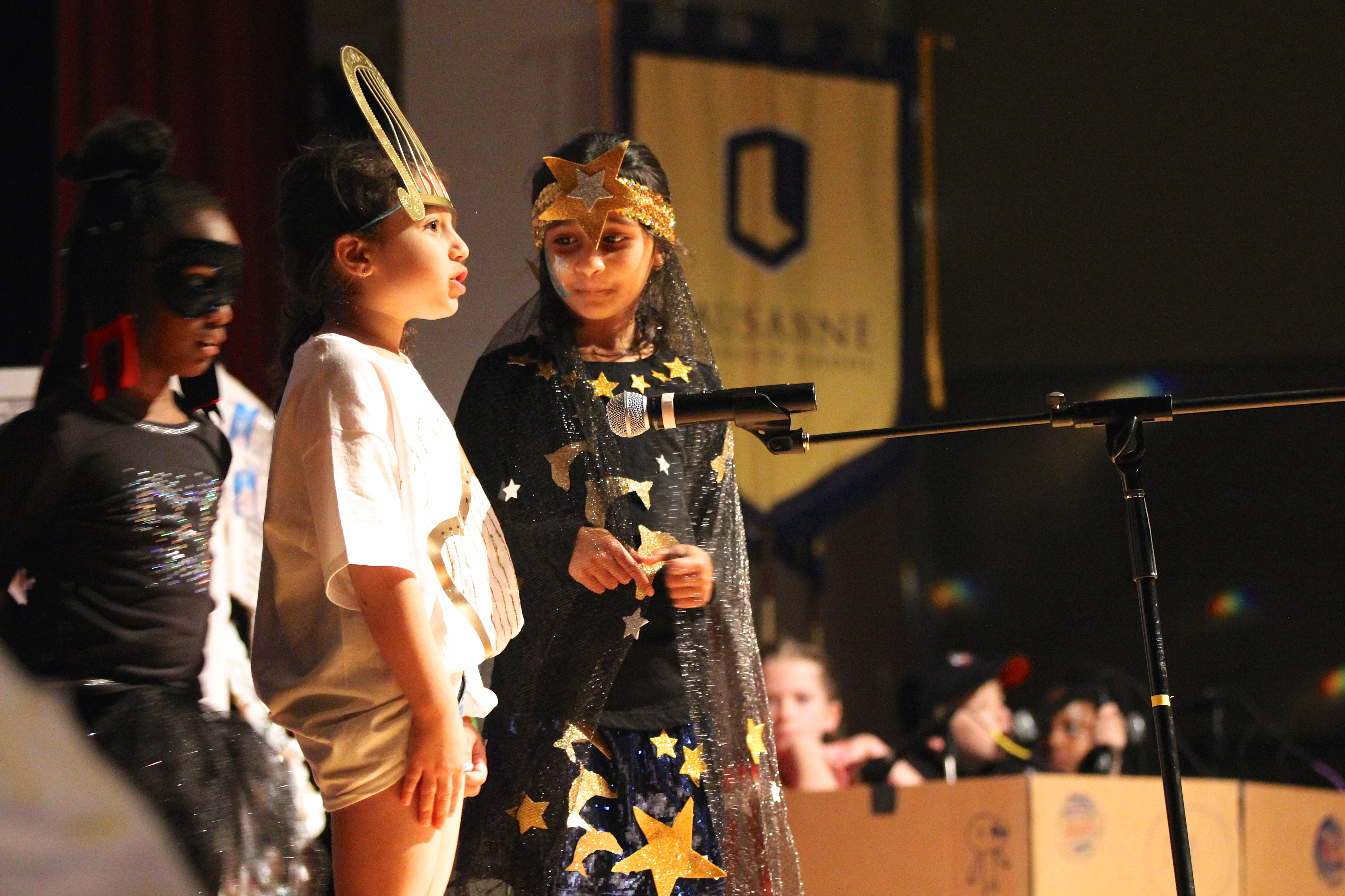 Lower School students presenting their findings about the solar system to their school.